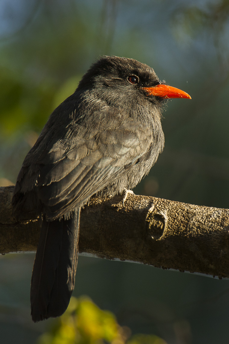 Black-fronted Nunbird - Brazil_H8O2216